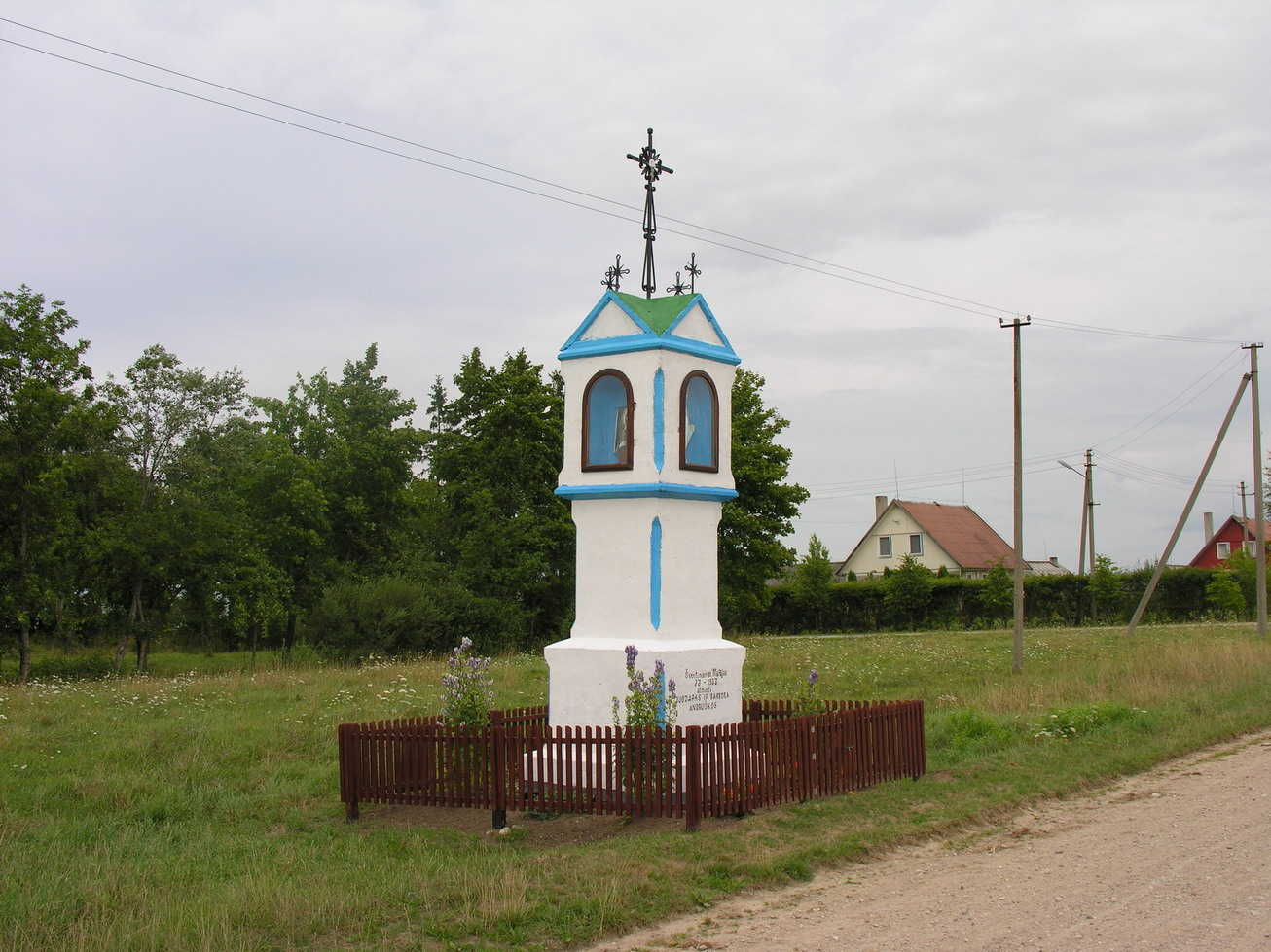 Bildstock in Alsūdis, Lithuania